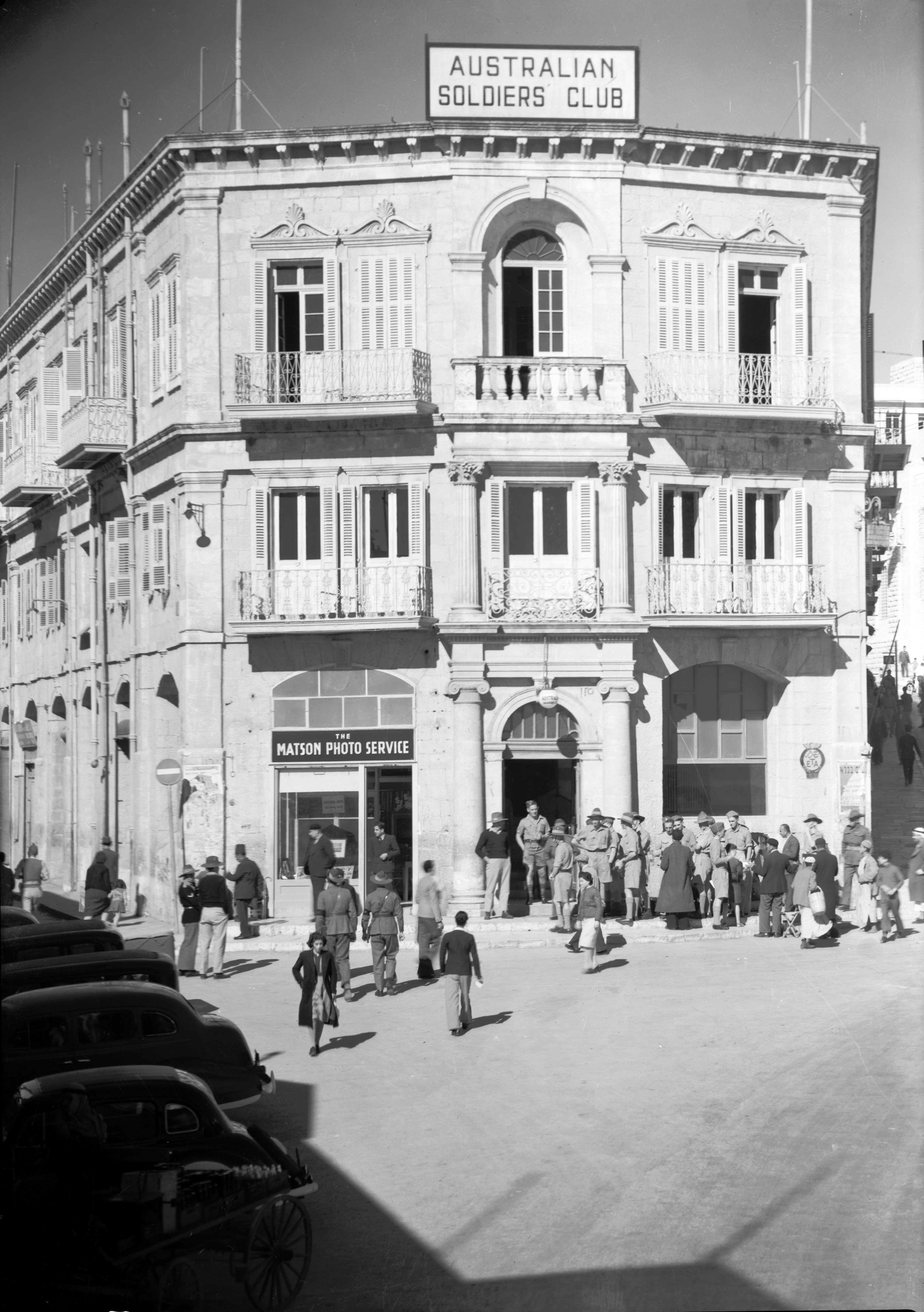 Austrian soldier house, located in the old Fast hotel. Also seen in the photograph is the entrance to 'Matson Photo service'. Australian Club, (old Fast Hotel, Jer. [i.e., Jerusalem]), Oct. 10 '40